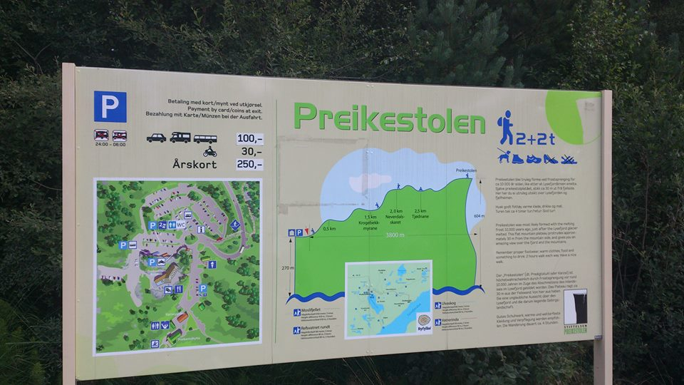 preikestolen main board